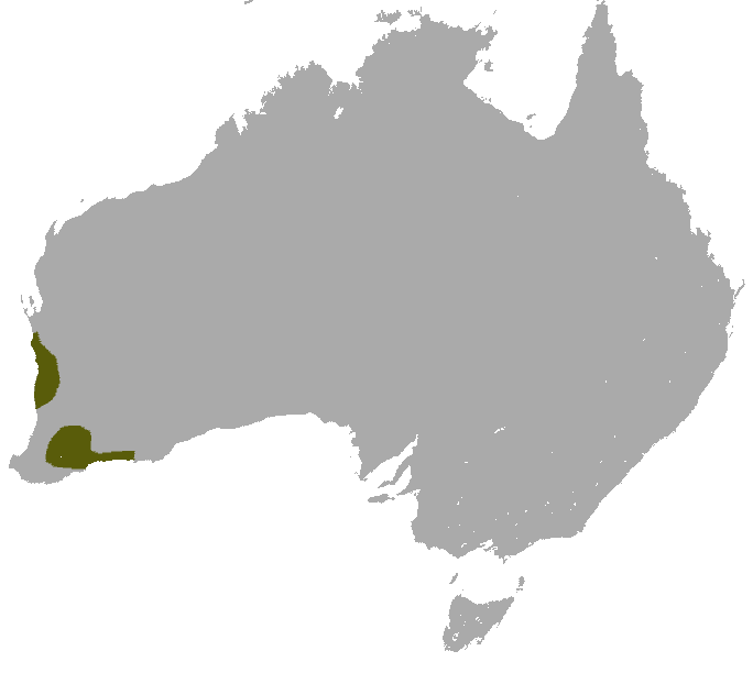 White-tailed Dunnart (Sminthopsis granulipes) range